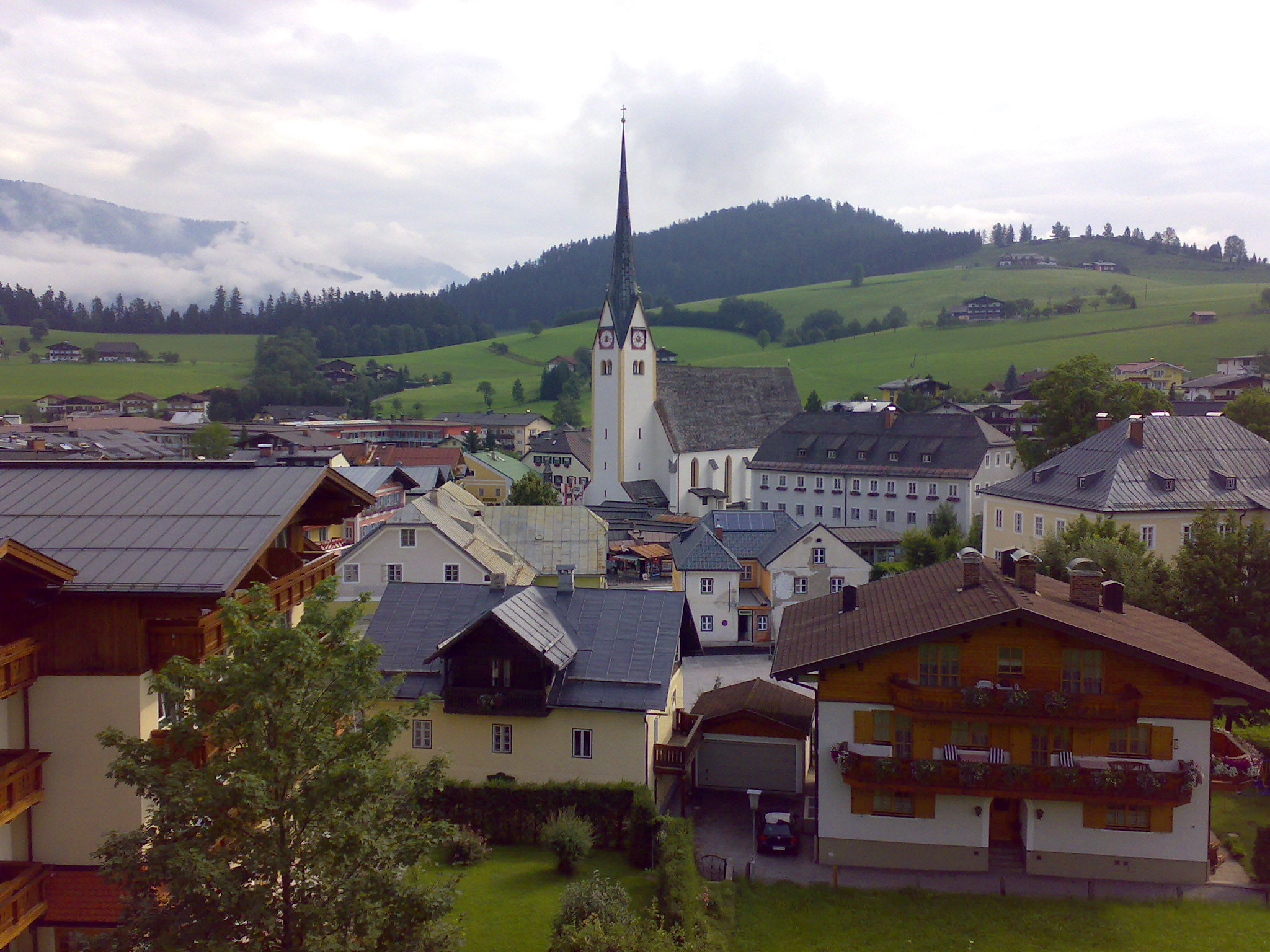 center of Abtenau with church